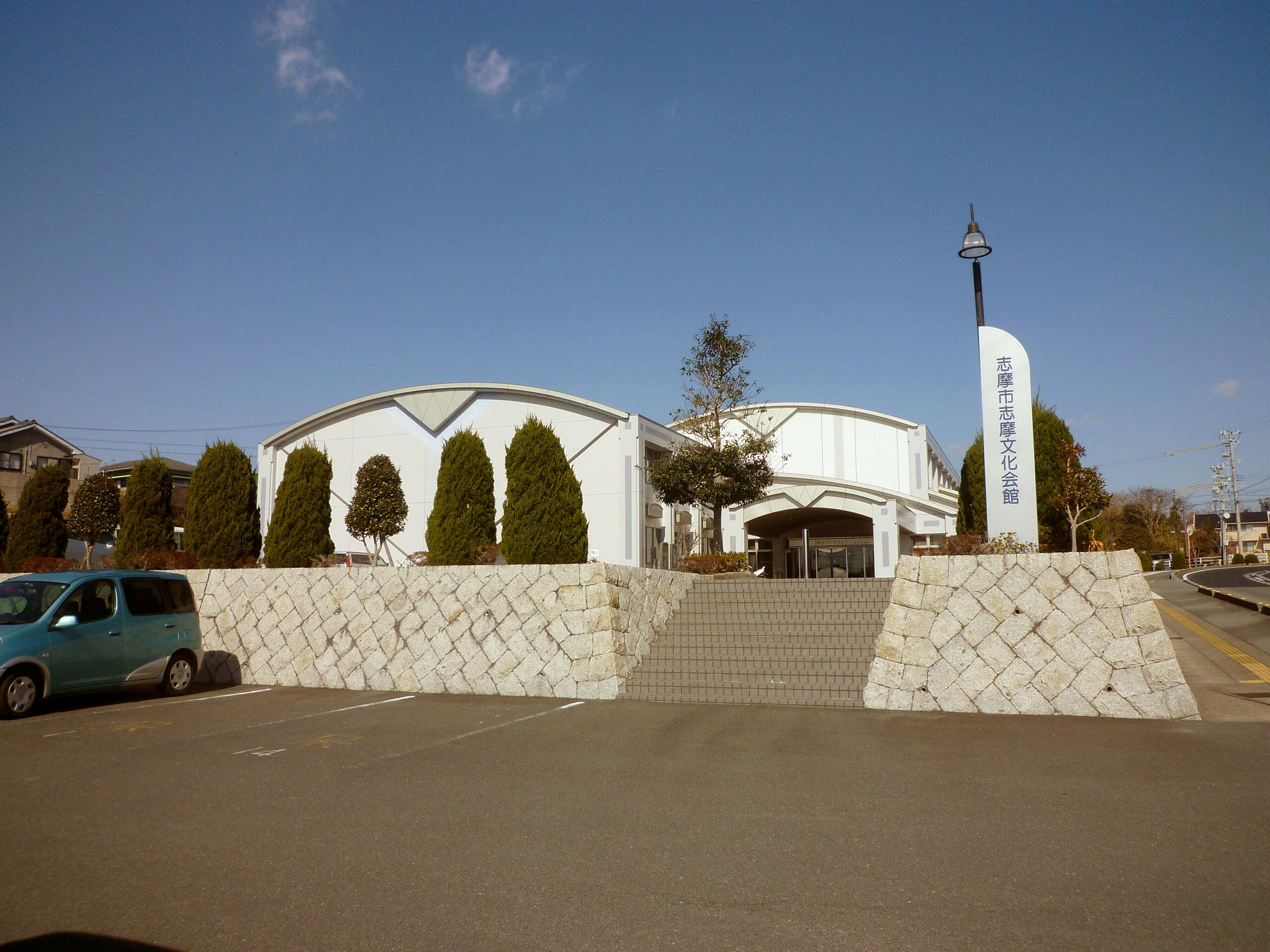 The "Shima City Shima Cultural Hall" in Shima-chō-Wagu, Shima City, Mie Prefecture, Japan.